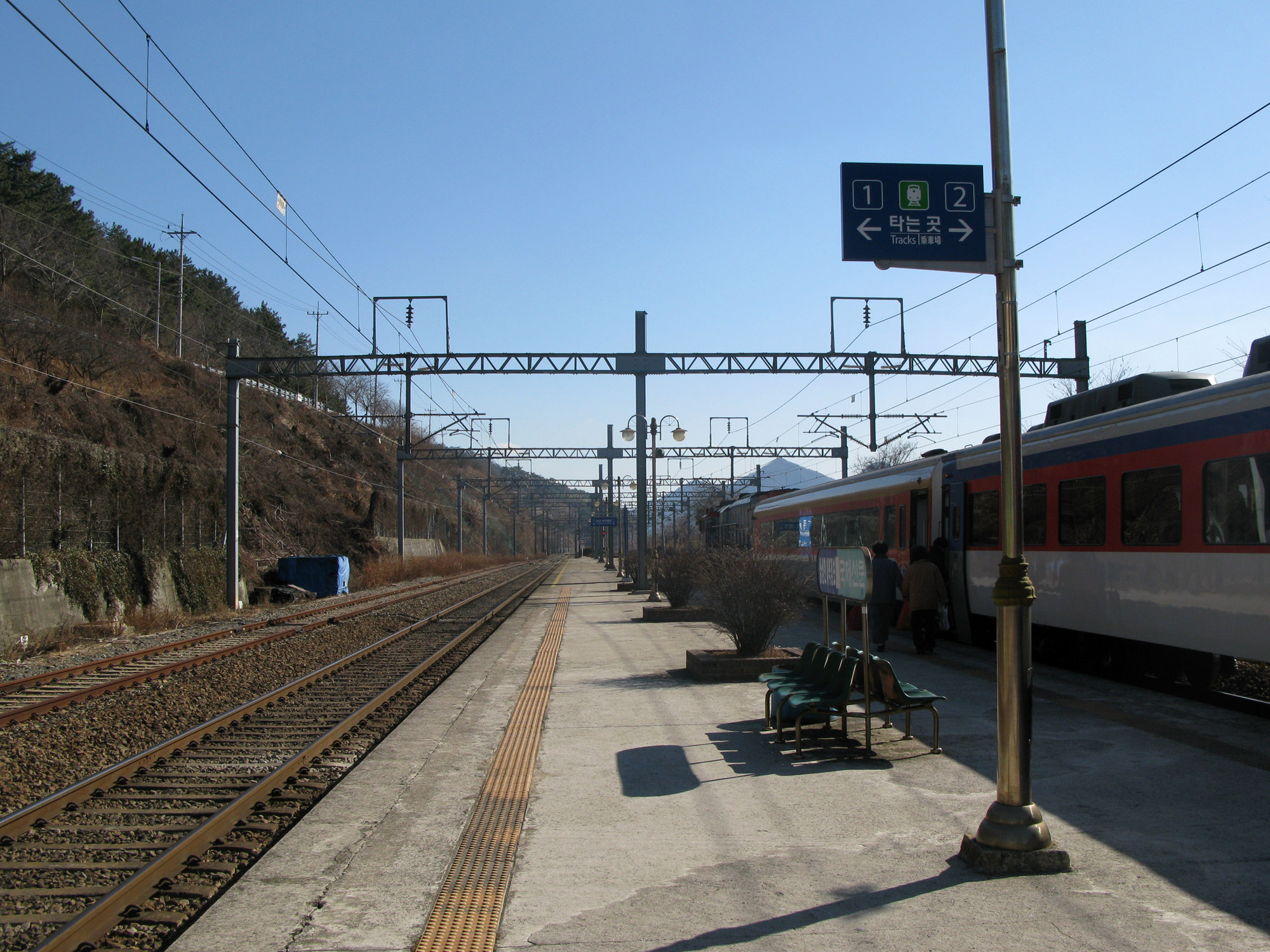 Gyeongbu Line Wondong Station Platform